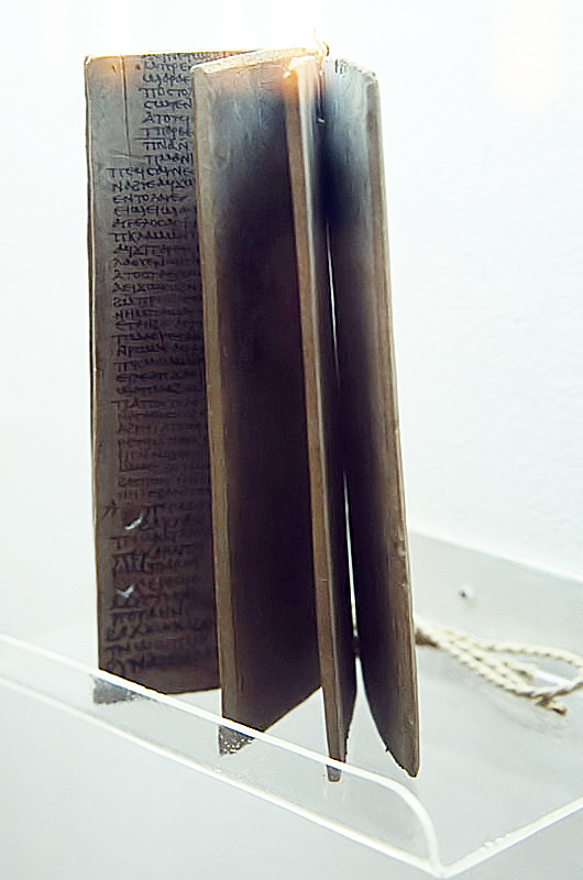 Town of el-Kharga, Archaeological Museum, Coptic inscription in a wooden book, Roman period, from Ismant el-Kharab, el-Kharga depression, Libyan desert, Egypt